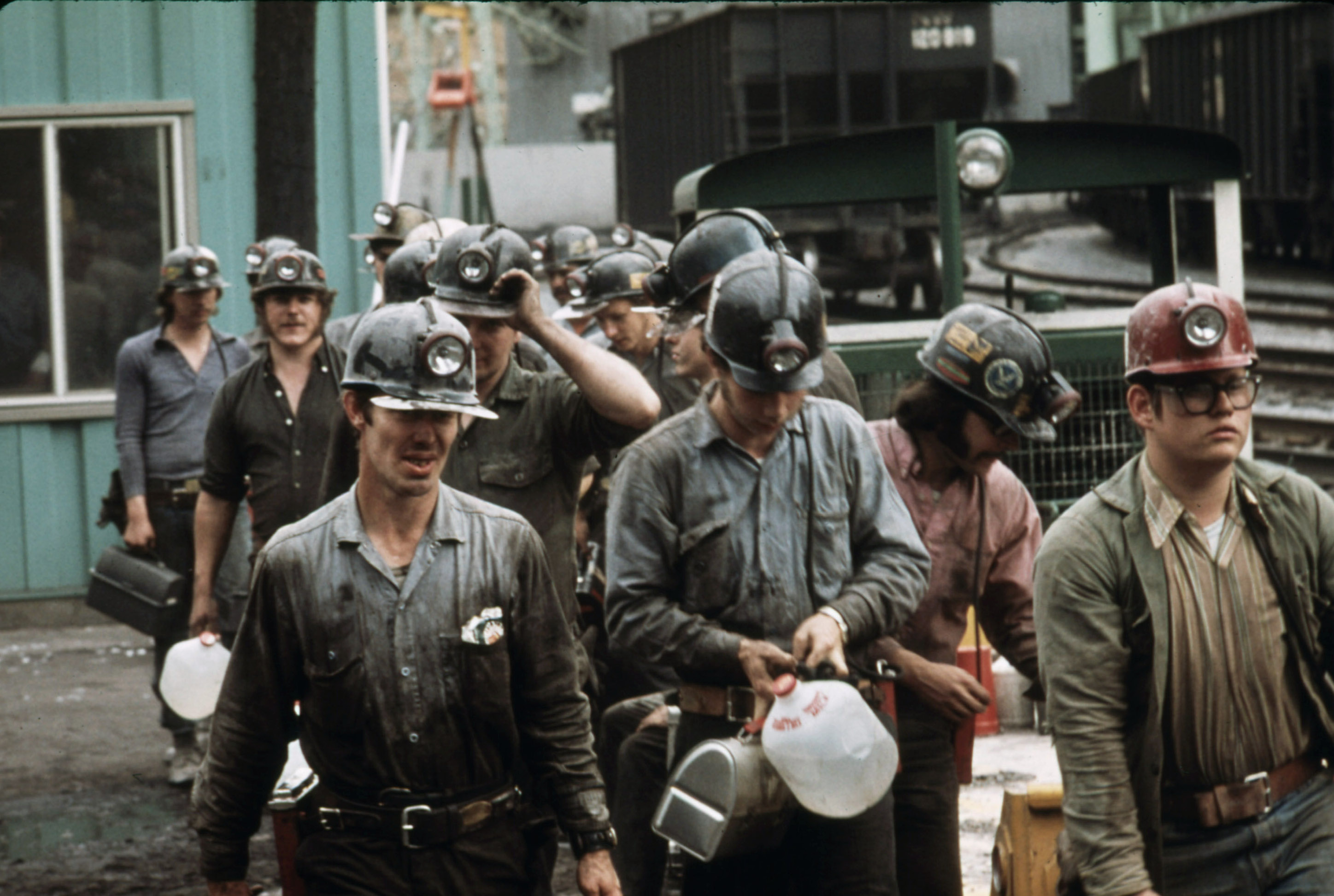 Original Caption: Miners Line Up to Go Into the Elevator Shaft at the Virginia-Pocahontas Coal Company Mine #4 near Richlands, Virginia the Man at the Right Wears a Red Hat Which Means He Is a New Miner and Has Worked Below Less Than a Month. His Belt Also Shows Less Wear Than the Others. The Miner at the Left Carries Red Man Chewing Tobacco, Used by Many of the Men Because They Cannot Smoke in the Mines. They Also Prefer to Carry Their Own Water Rather Than Use What the Company Provides 04/1974 U.S. National Archives’ Local Identifier: 412-DA-13886 Photographer: Corn, Jack, 1929- Subjects: Richlands (Tazewell county, Virginia, United States) inhabited place Environmental Protection Agency Project DOCUMERICA Persistent URL: Repository: Still Picture Records Section, Special Media Archives Services Division (NWCS-S), National Archives at College Park, 8601 Adelphi Road, College Park, MD, 20740-6001. For information about ordering reproductions of photographs held by the Still Picture Unit, visit: Reproductions may be ordered via an independent vendor. NARA maintains a list of vendors at Buy copies of selected National Archives photographs and documents at the National Archives Print Shop online: Access Restrictions: Unrestricted Use Restrictions: Unrestricted